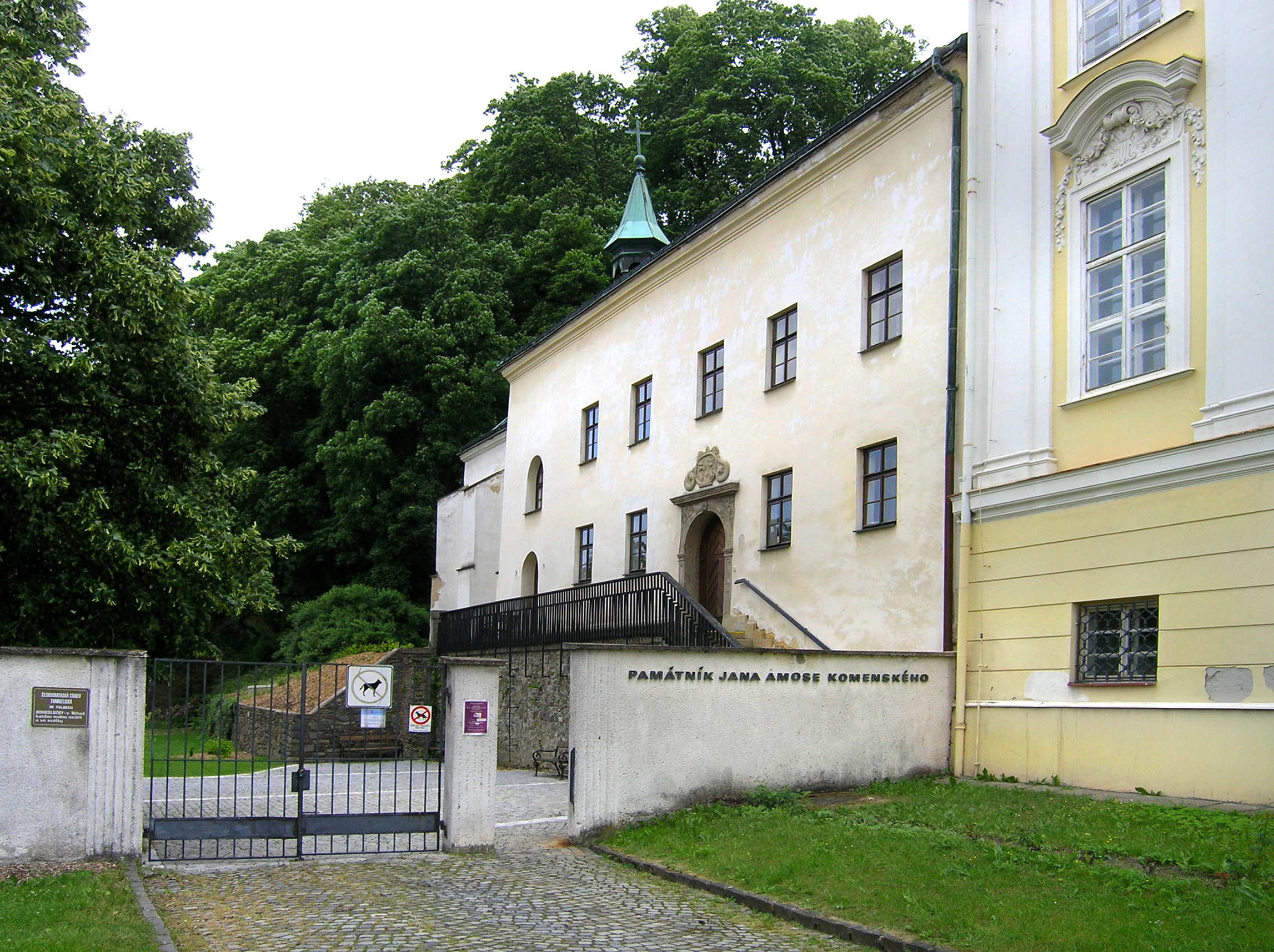 Jan Amos Konemský memorial in Fulnek, Czech Republic